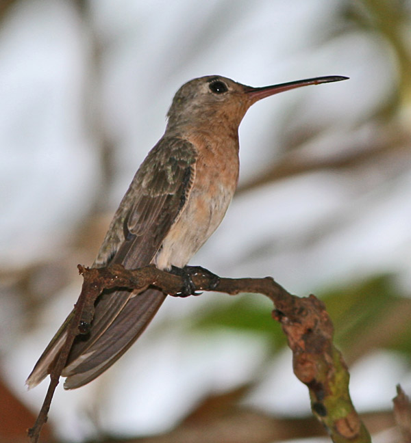 Buffy Hummingbird, Isla Margarita, Venezuela